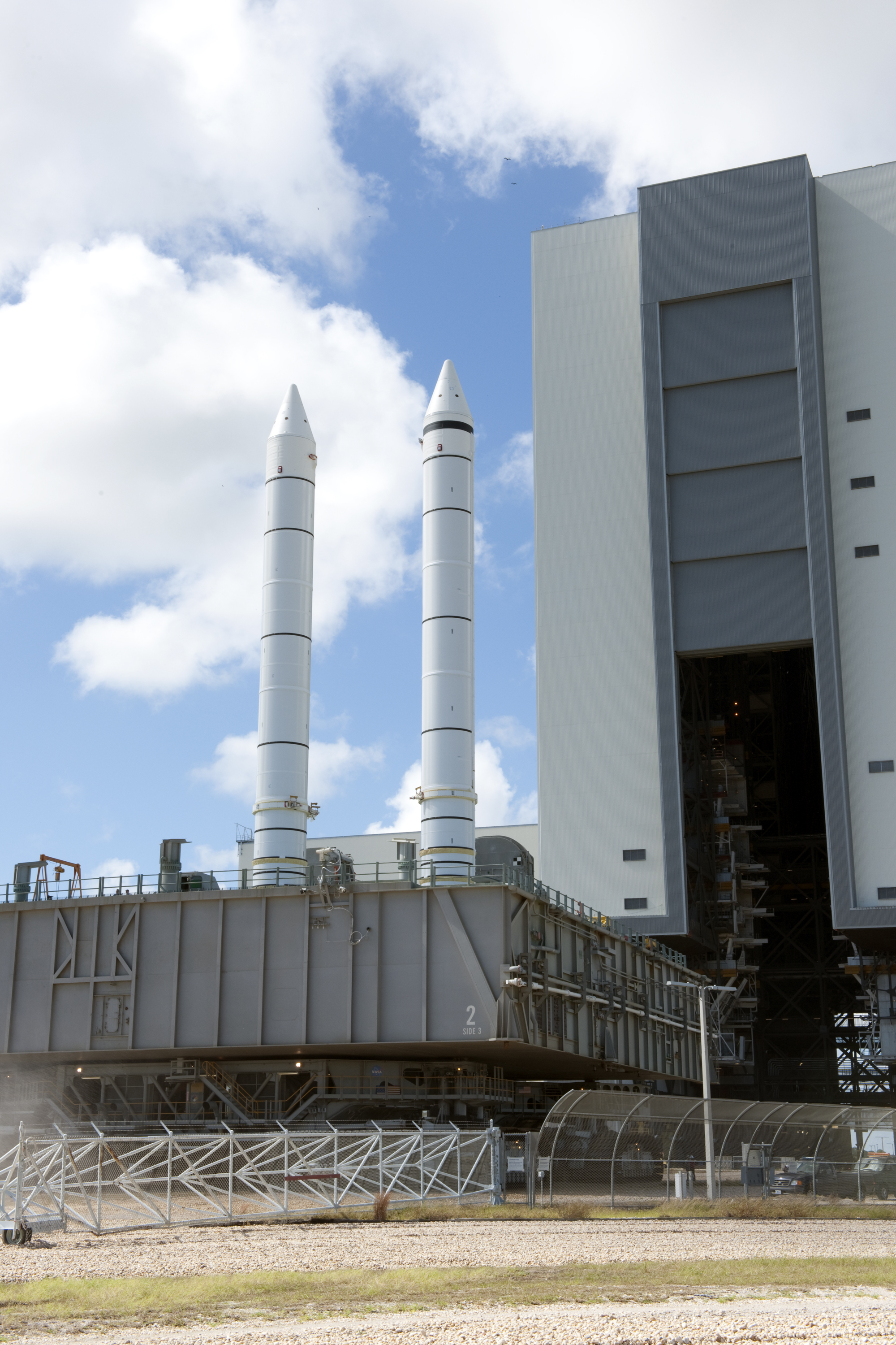 CAPE CANAVERAL, Fla. -- At NASA's Kennedy Space Center in Florida, a crawler-transporter moves a mobile launcher platform with two solid rocket boosters perched on top from the Vehicle Assembly Building's (VAB) High Bay 1 to High Bay 3. Inside the VAB, the boosters will be joined to an external fuel tank next month in preparation for space shuttle Endeavour's STS-134 mission to the International Space Station targeted to launch in February, 2011. For more information visit